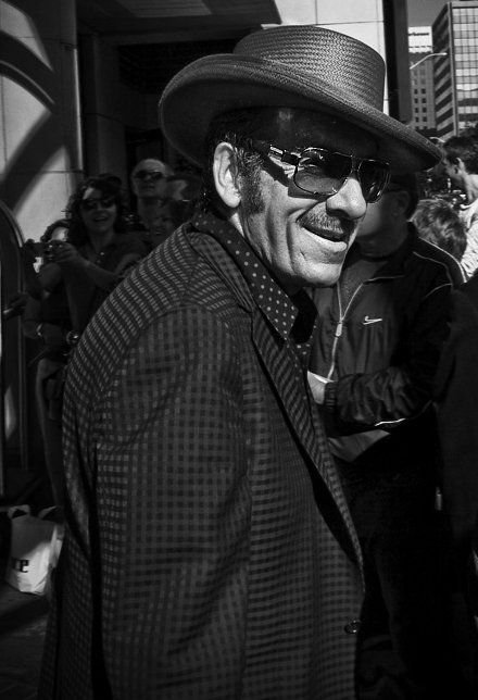 Elvis Costello at the 2009 Toronto International Film Festival.